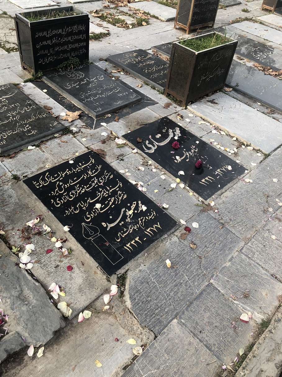 Emamzadeh Taher